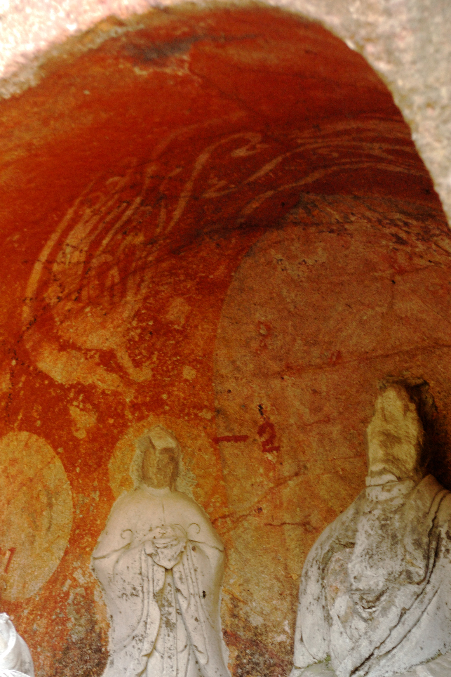 Mural Painting in Qixia Temple